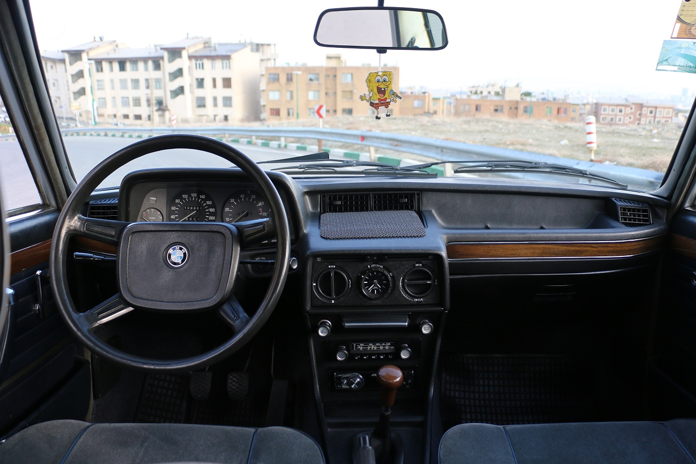 BMW E12 Interior.